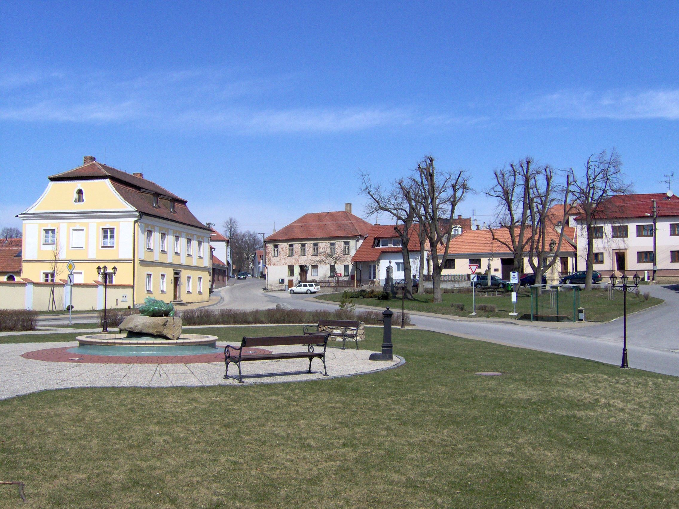 Osová Bítýška village, Žďár nad Sázavou District, Czech Republic